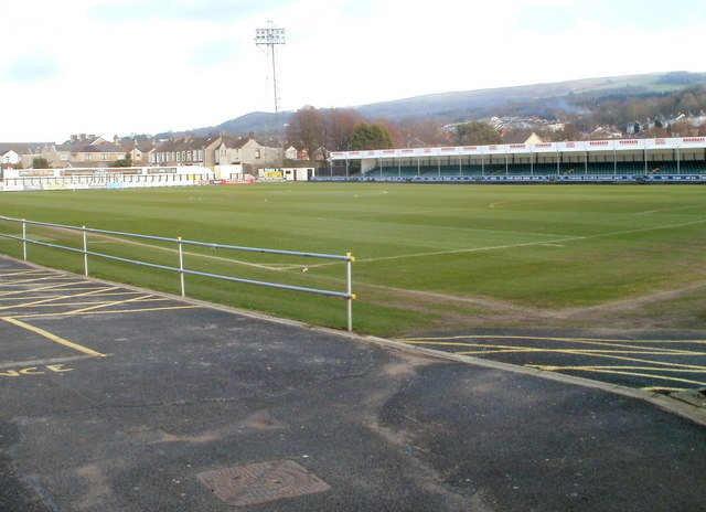 The Gnoll rugby pitch, Neath The view from the SW across the pitch at the Gnoll, home ground of Neath Rugby Football Club.